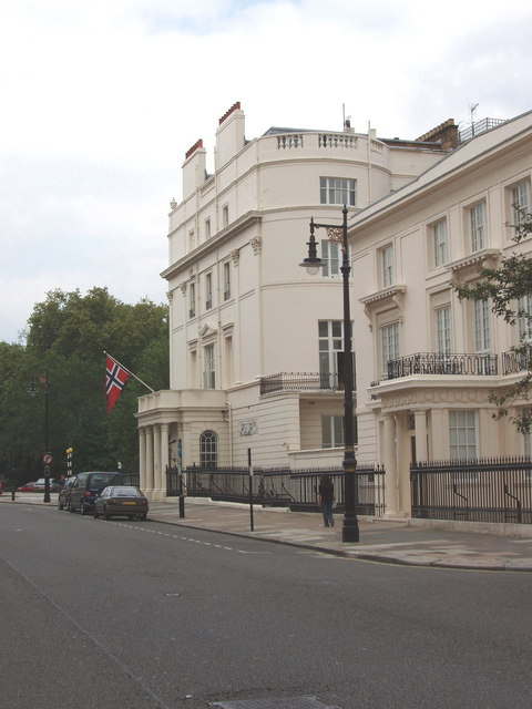 Norwegian Embassy, Belgrave Square, London. View from Belgrave Place. See .uk page